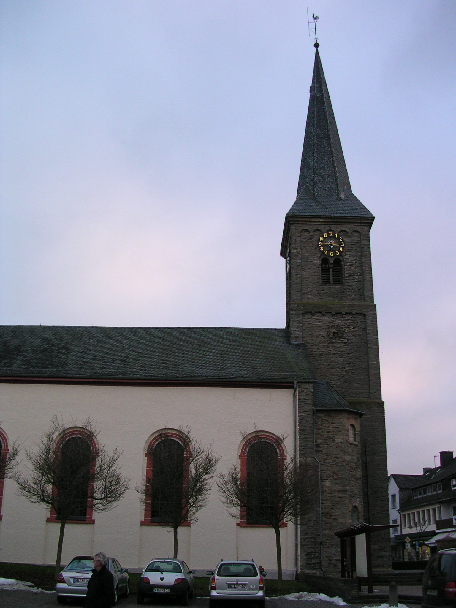 catholic church St. Anna in Morbach